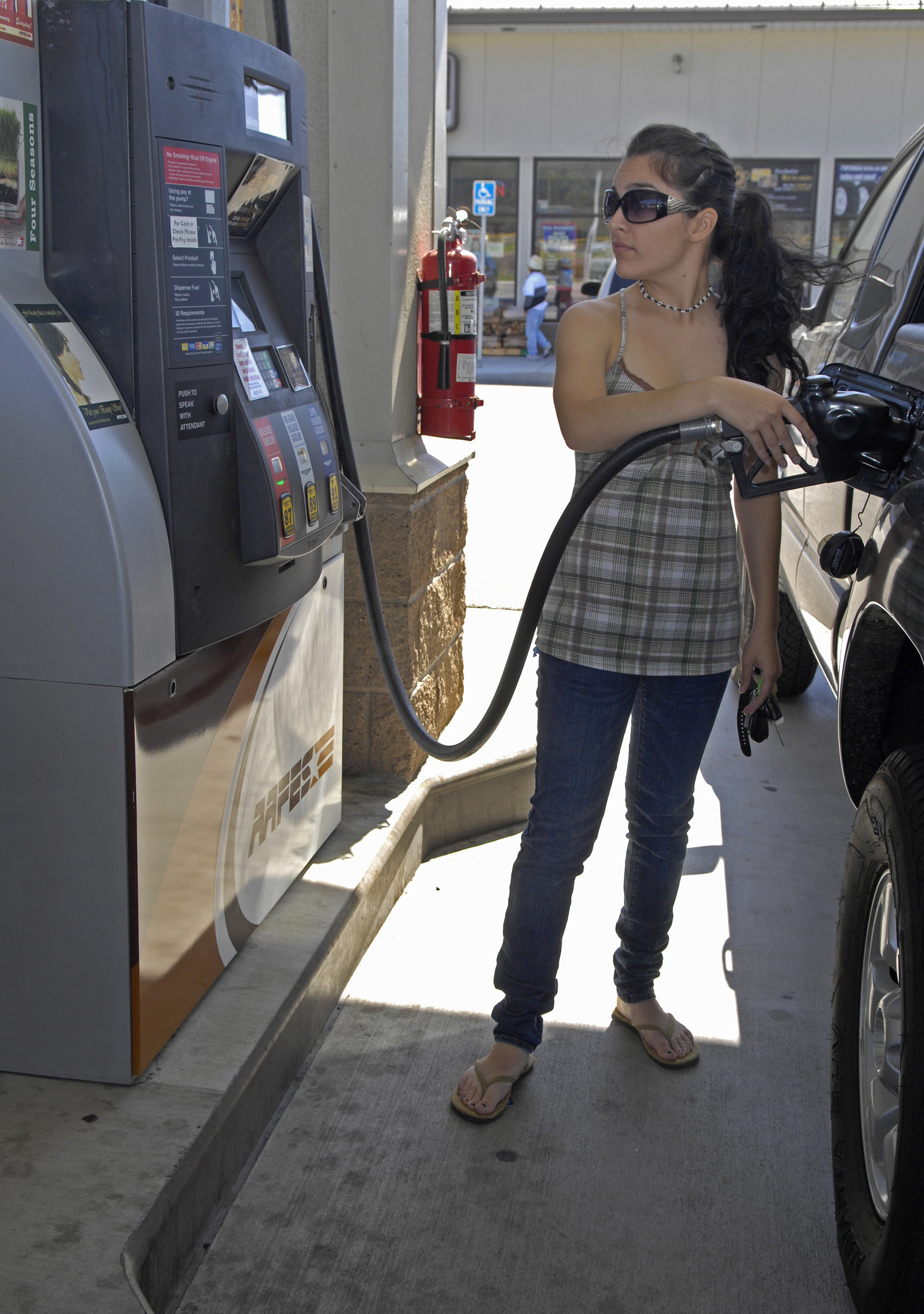 A customer pumps gas at The Army and Air Force Exchange Service gas station at Vandenberg Air Force Base